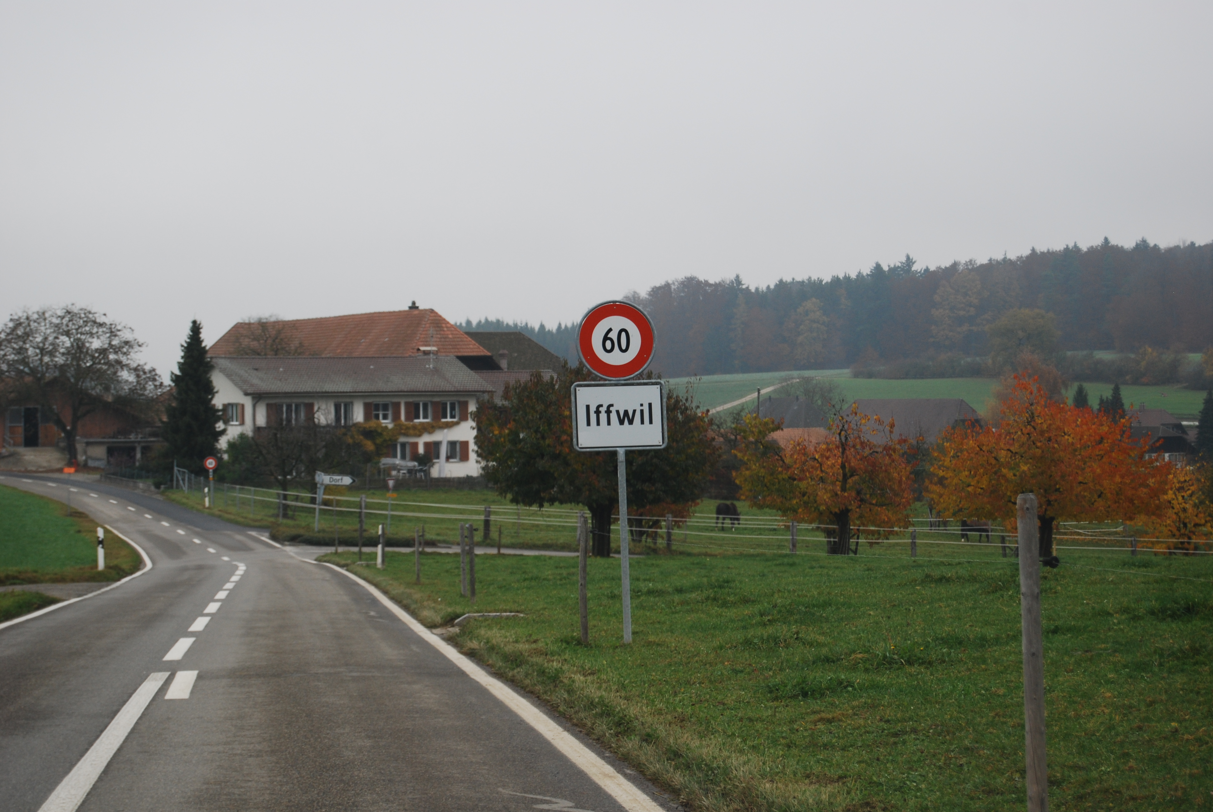 Iffwil, canton of Bern, SwitzerlandEsperanto: Iffwil, Kantono Berno, Svislando